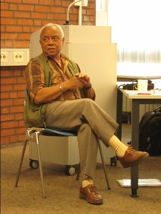 Neville Alexander at the World Conference of African Linguistics in Cologne, Sept 18, 2009.